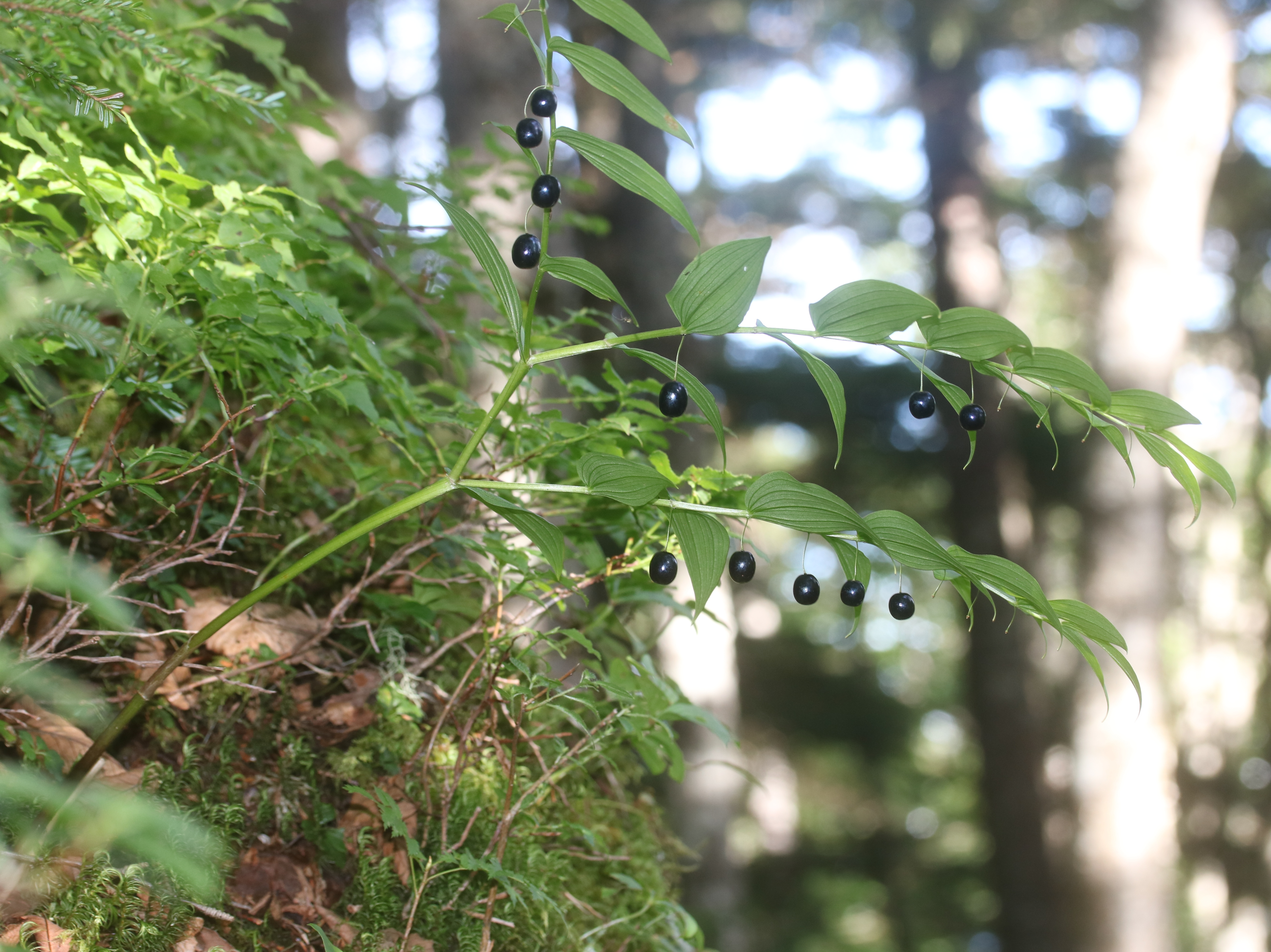 Streptopus streptopoides subsp. japonicus f. atrocarpus in Mount Ontake, Takayama, Gifu Prefecture, Japan.